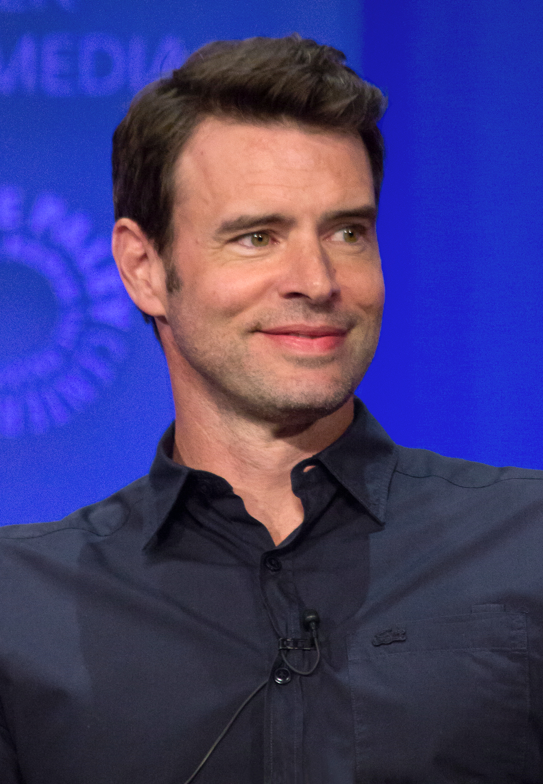 Scott Foley at PaleyFest 2015